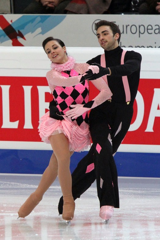 Sara Hurtado and Adrià Díaz at the 2011 European Figure Skating Championships